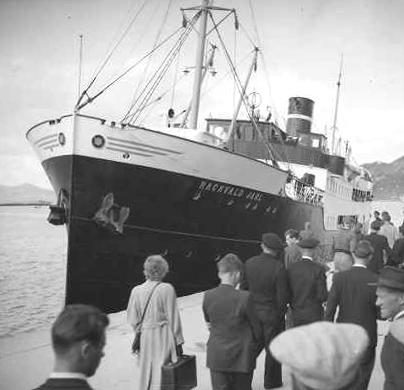 Norwegian coastal express ship (Hurtigruten) MS Ragnvald Jarl (built in 1930 as MS Bornholm) in Bodø. Not to be confused with MS Ragnvald Jarl built in 1956.